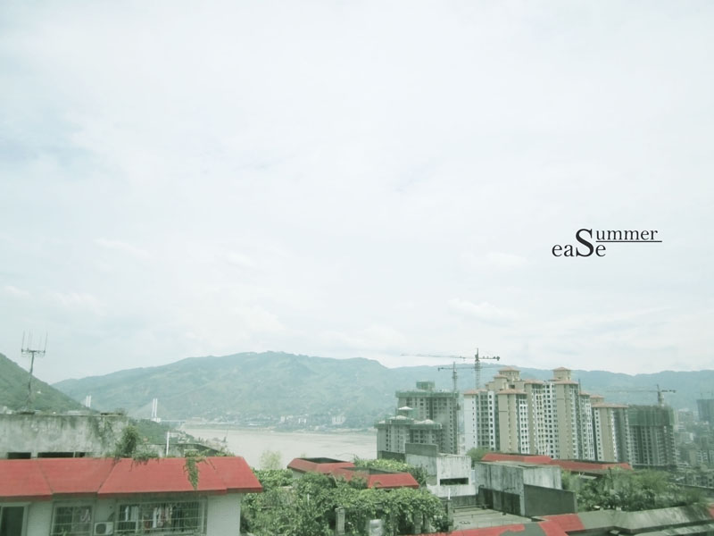 This is a photo that shows the scenery of the city of fuling.